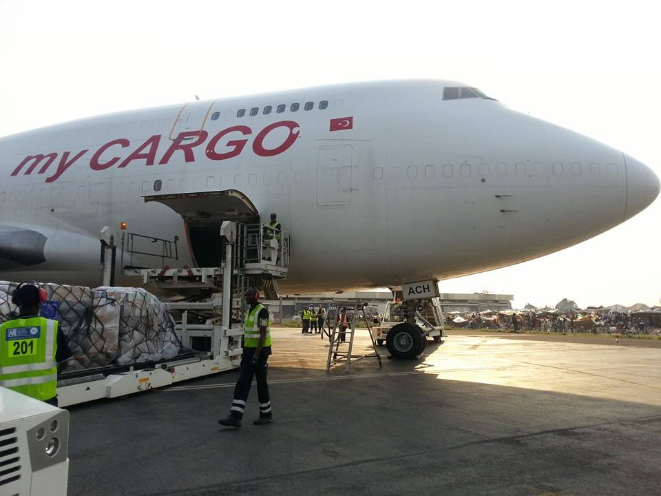 TC-ACH